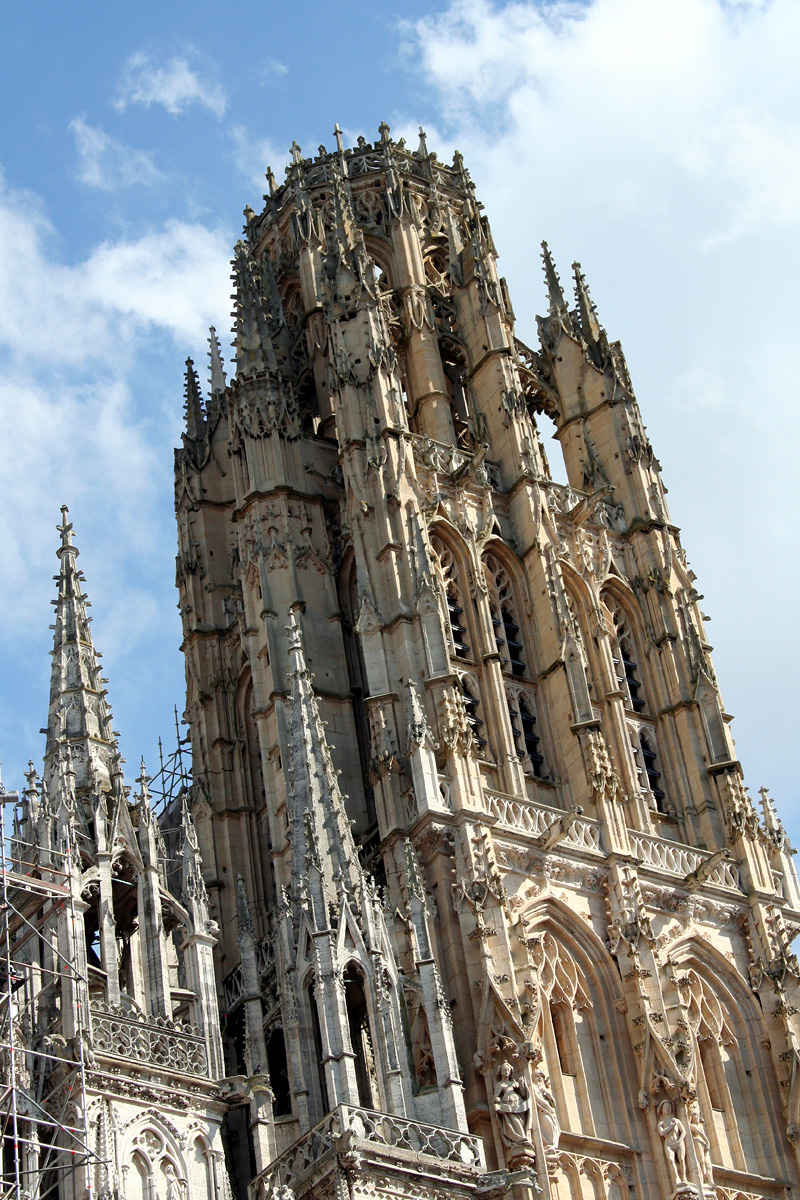 The cathedral, Rouen, France